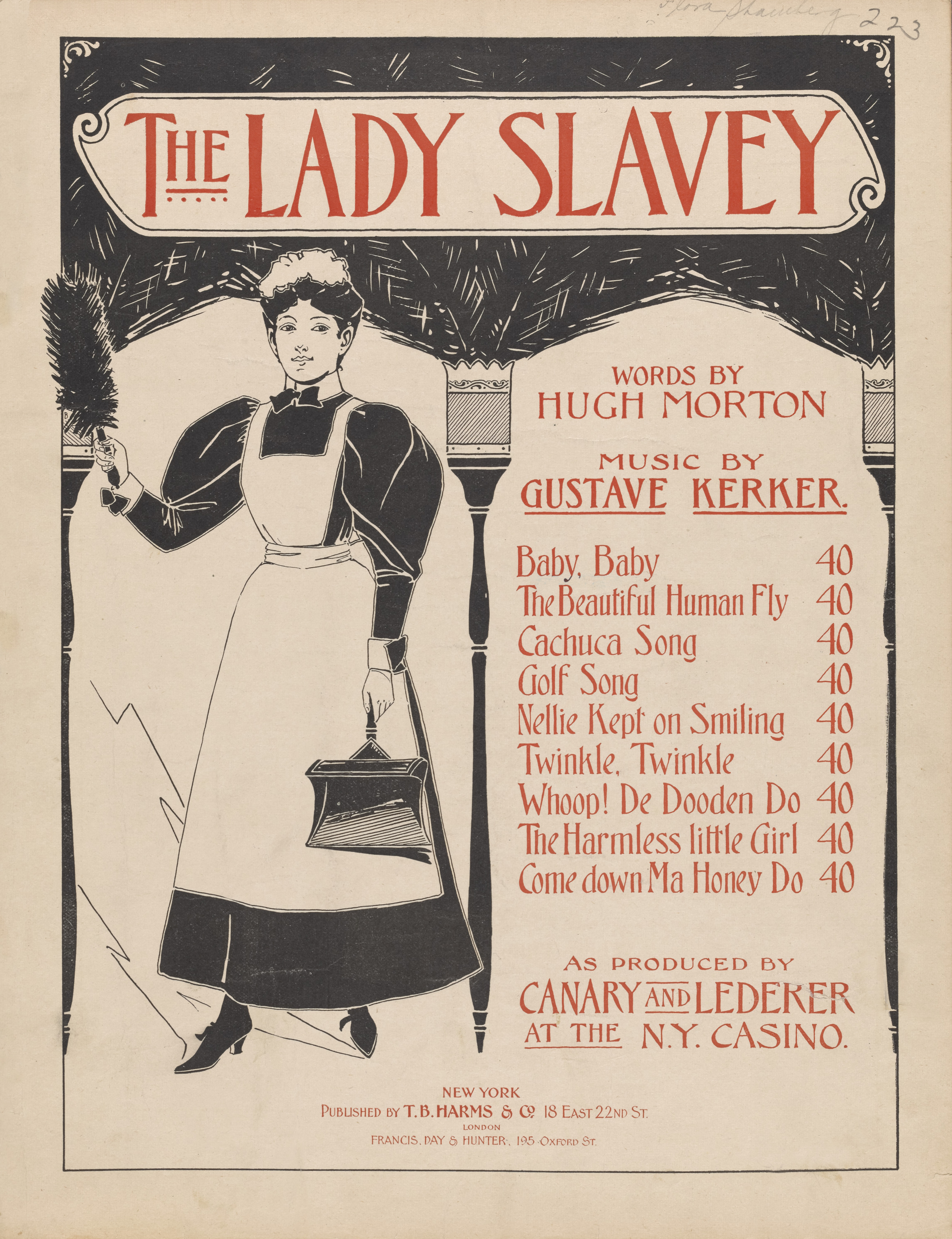 Front cover of the sheet music book for the Broadway musical The Lady Slavey (1896)